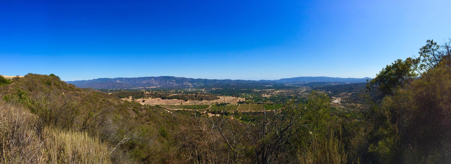 Panoramic view of the Ojai Valley as seen from the lookout point from the Cozy Dell Trail.